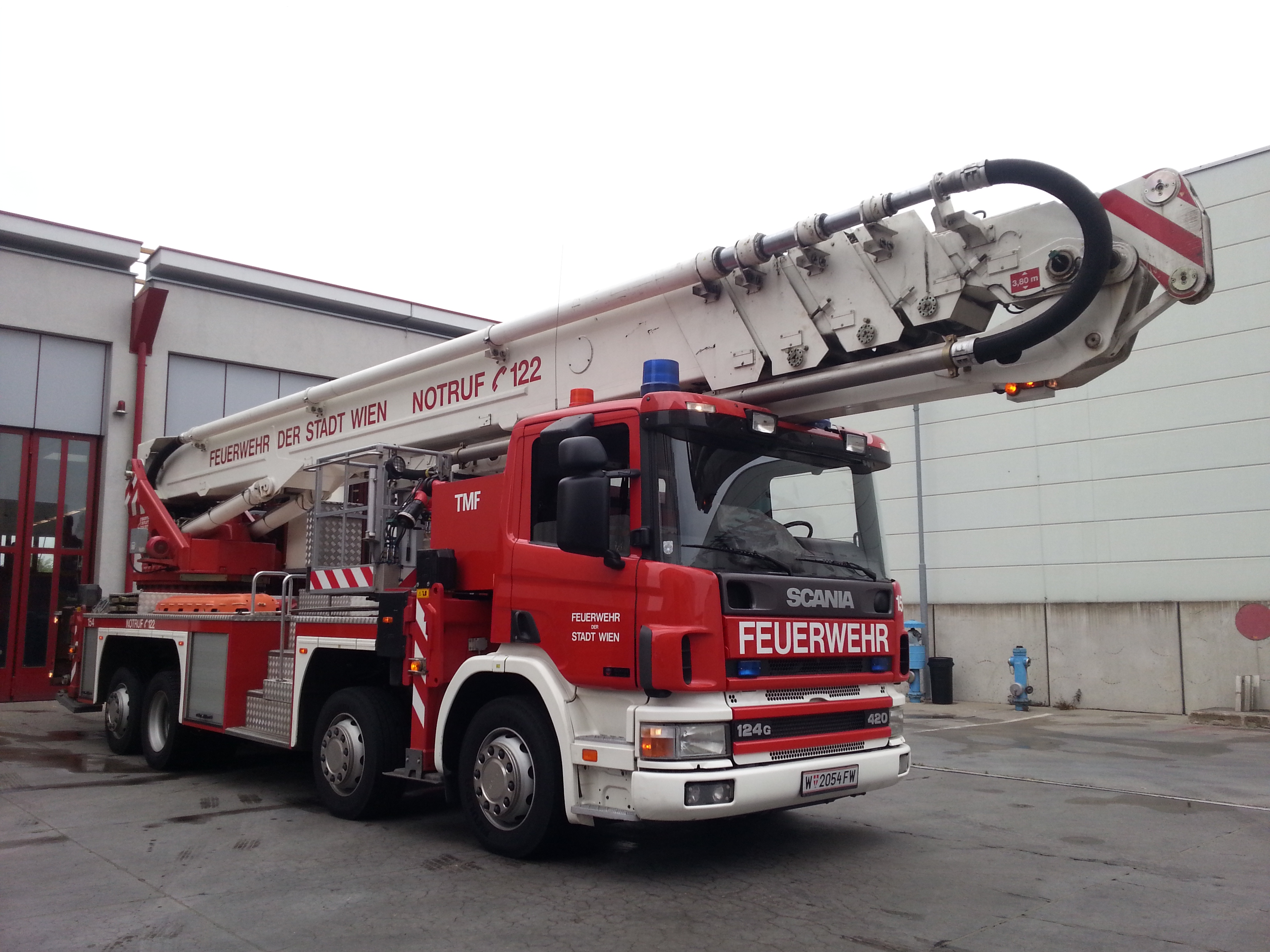 A hydraulic platform of the Vienna City Fire Department which can reach a maximum height of 54 metres.